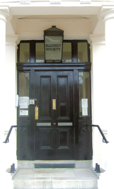 The Buddhist Society, 58 Eccleston Square, London SW1 The patron of the society is the Dalai Lama